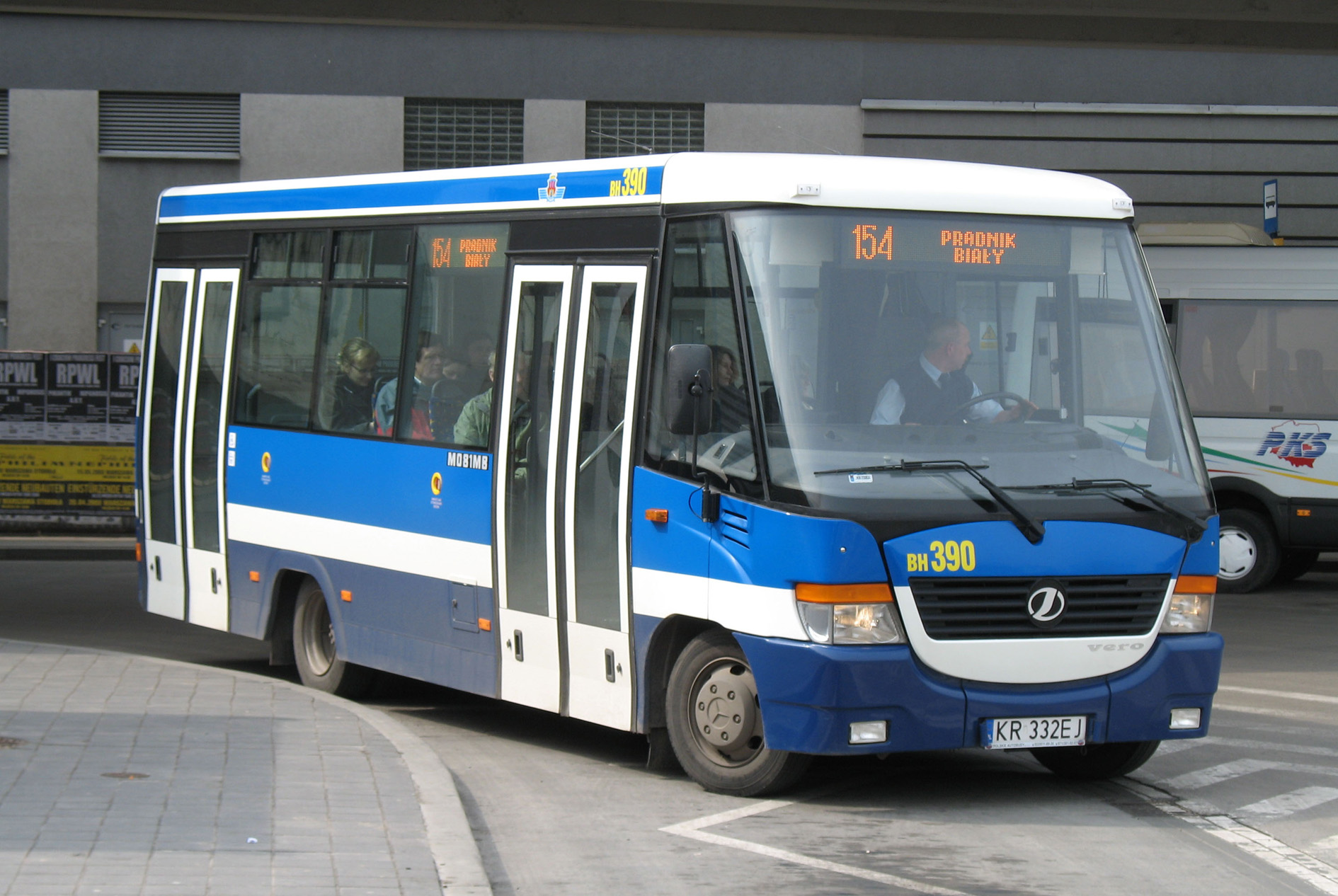 Jelcz M081MB/3 Vero bus (#BH390, reg. KR 332EJ) in Kraków, Poland. Built 2007, MPK Kraków operator.